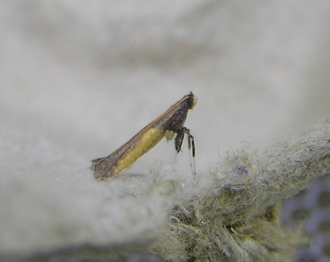 Caloptilia azaleella, picture taken in Goes, the Netherlands.